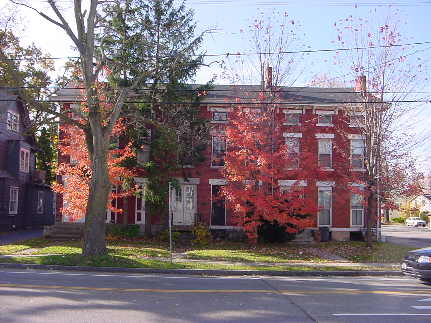 Photo of the Bruce-Briggs Brick Block in Lancaster, New York. This building is listed on the National Register of Historic Places.